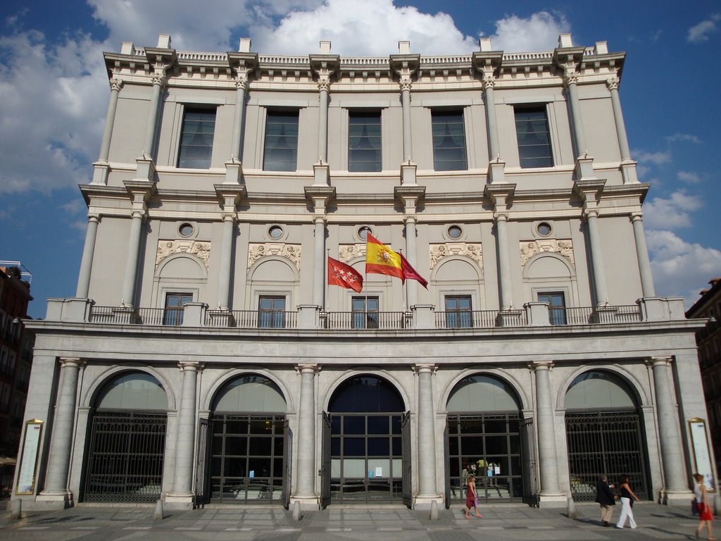 West façade of the Teatro Real (opera house and concert hall) in Madrid (Spain).